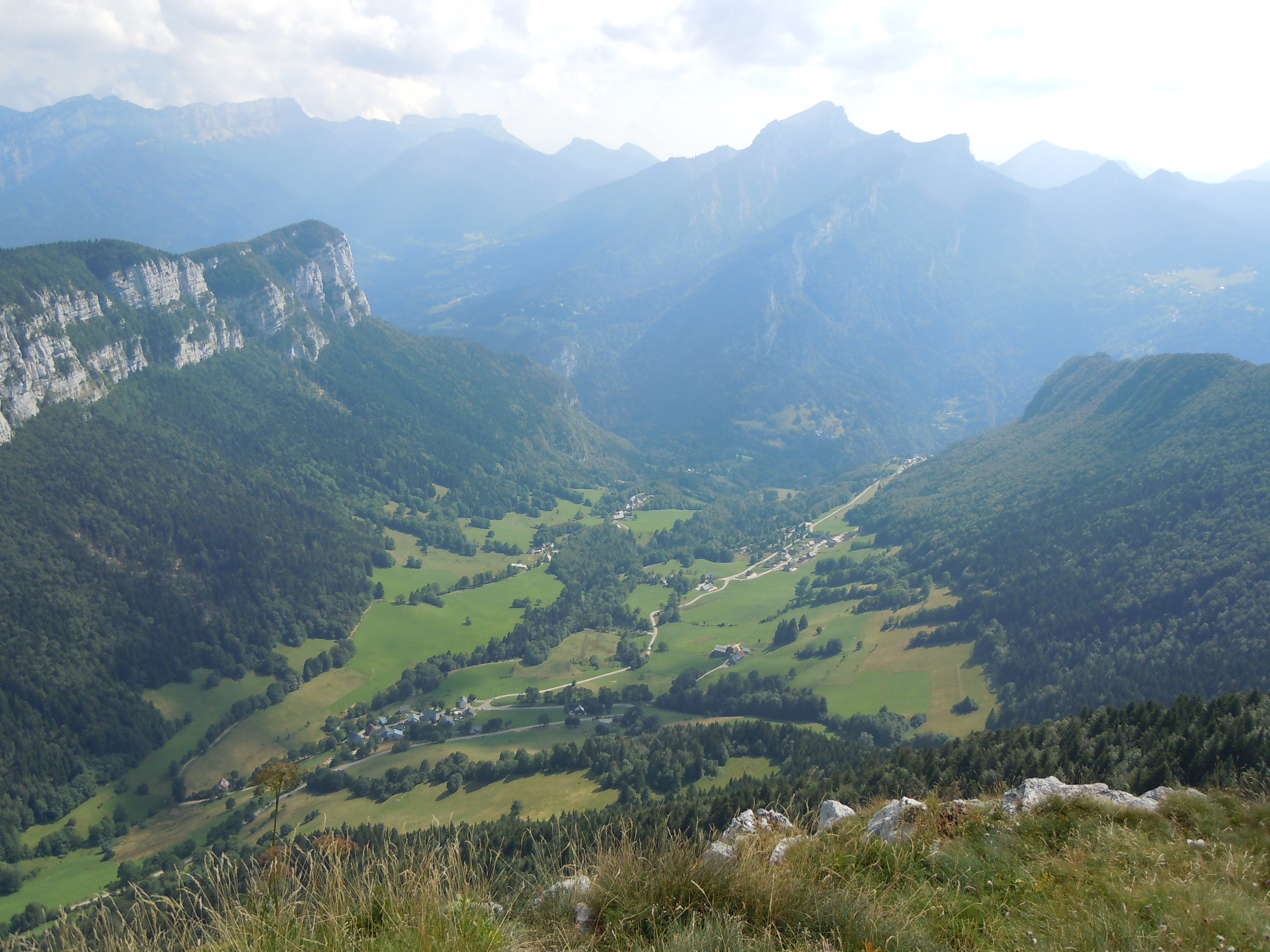 South view from la Cochette